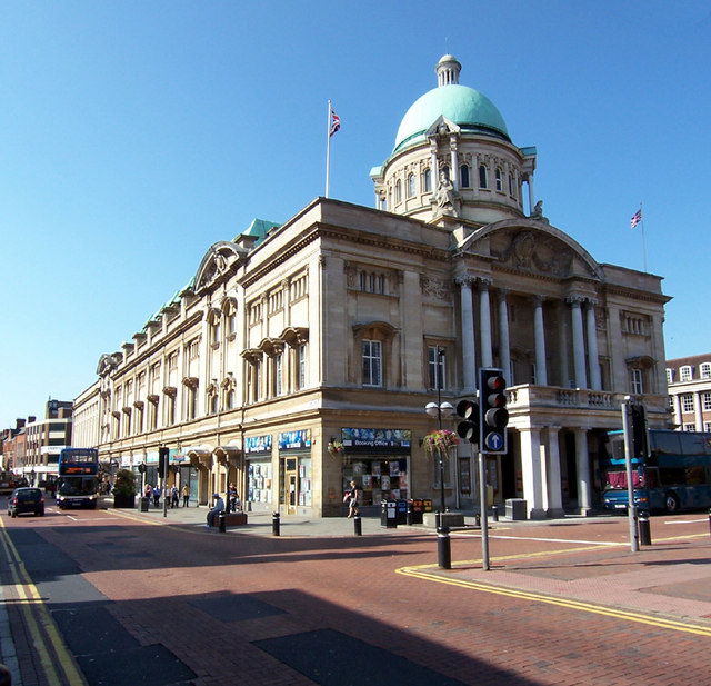 Hull City Hall, Hull, East Riding of Yorkshire, England. Picture taken from the Carr Lane corner of Victoria Square looking approx. West.